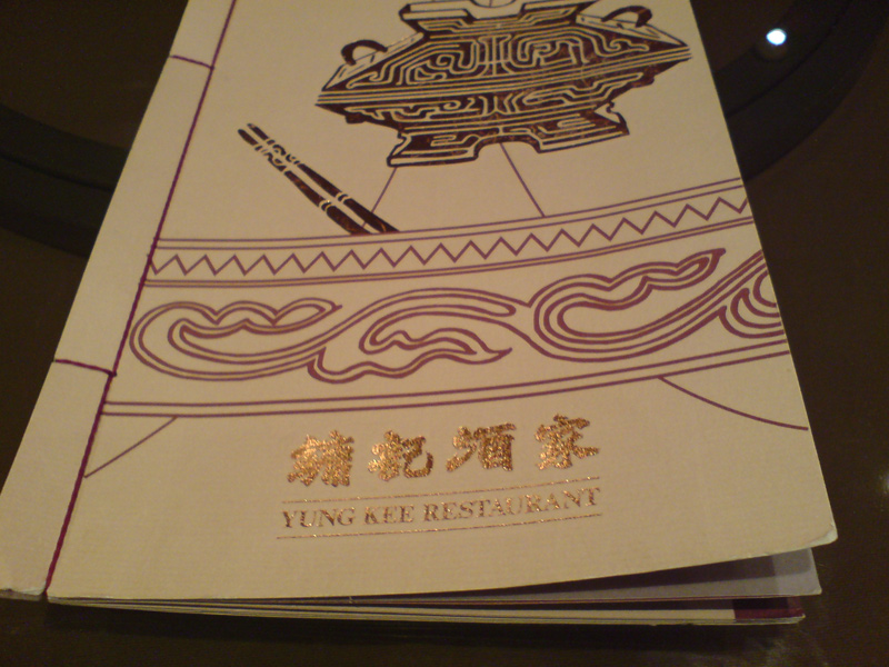 Menu cover of Yung Kee Restaurant, Central, Hong Kong.